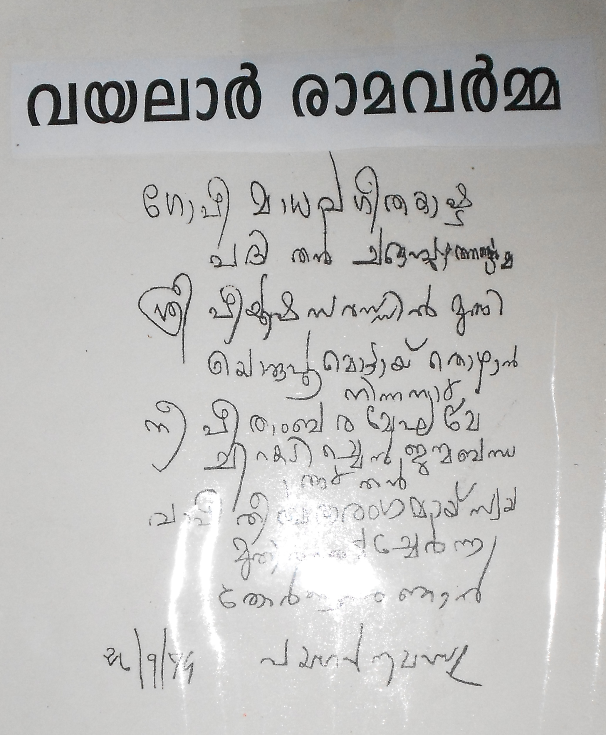 Vayalar handwriting , from Kerala sahitya academy exhibition, thrissur in connection with national book festival